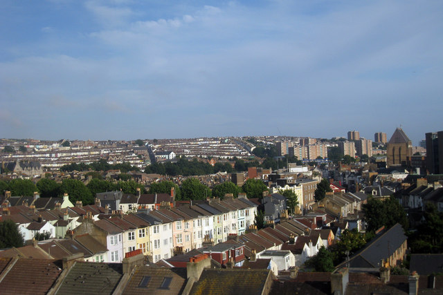 View over Brighton, East Sussex